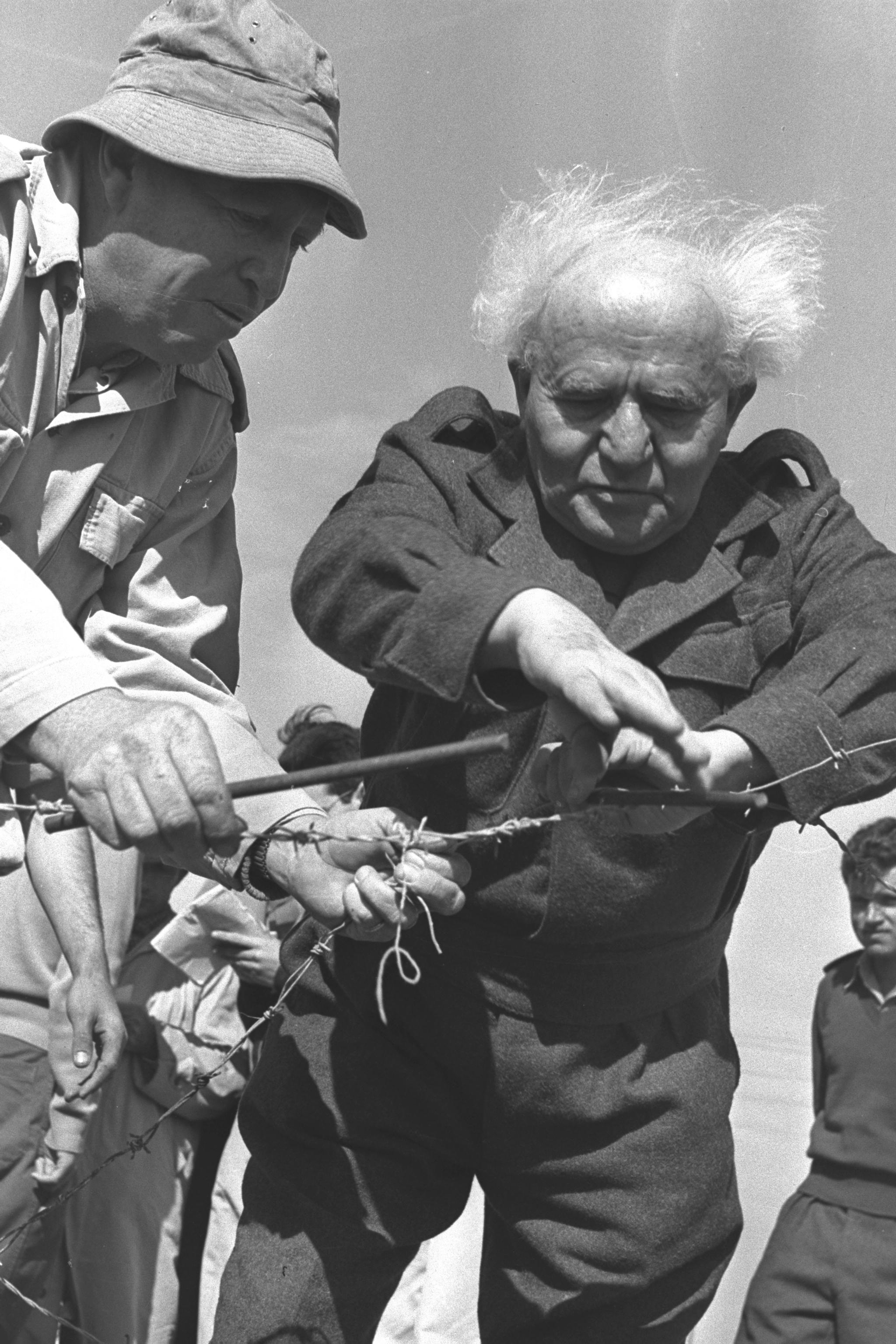 P.M. David Ben Gurion helps members of Mivtachim build barbed wire fence around their settlement.